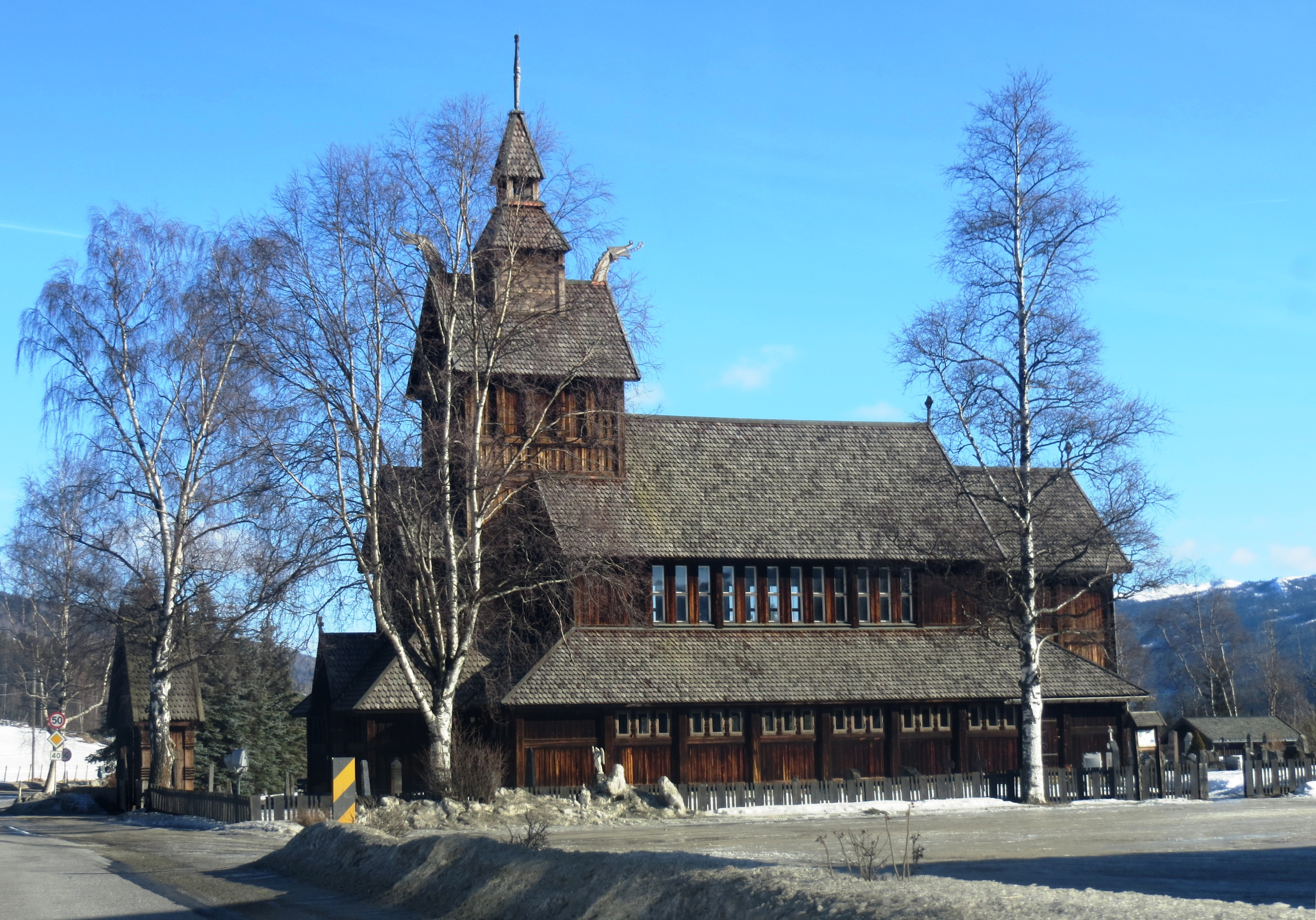 Image of this church situated in Nore og Uvdal municipality, northern Buskerud county, Norway